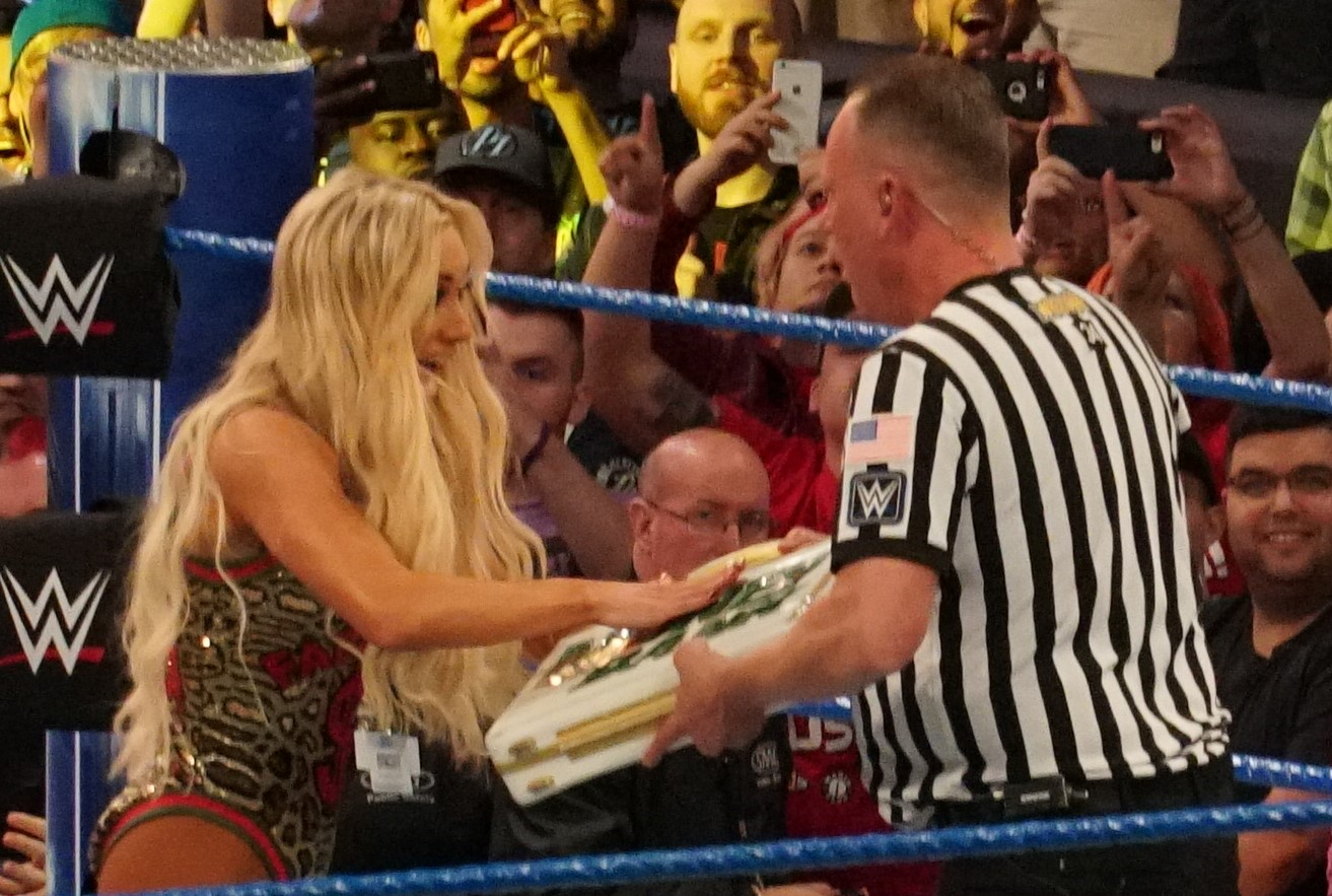 Carmella cashes in her Money in the Bank contract on SmackDown in April 2018.